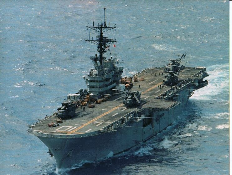 USS Tripoli from NavSource online. NavSource credits this image as a U.S. Navy photo. No reason to doubt the source.